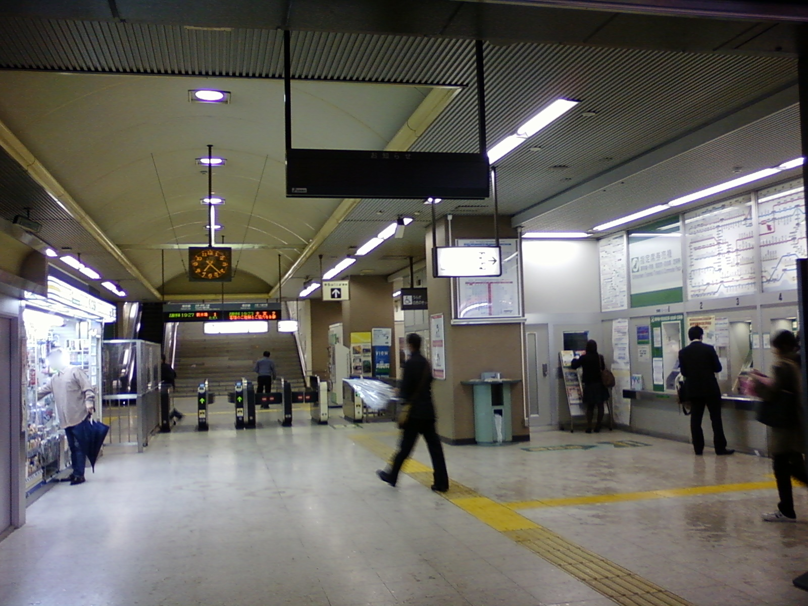 Minami-Yono Station on the Saikyo Line